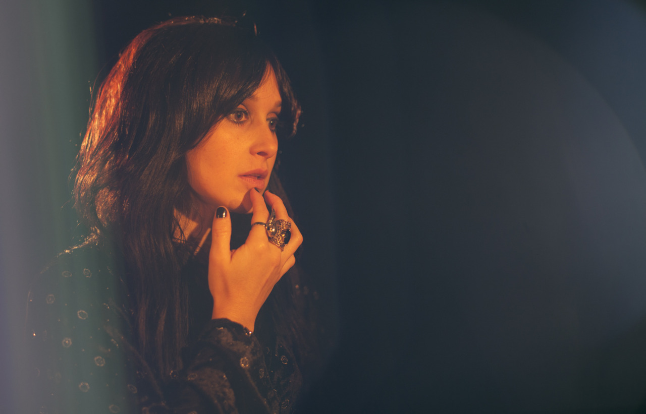 Juanita Stein of Indie rock band Howling Bells on the set of the music video for "Into the Sky".